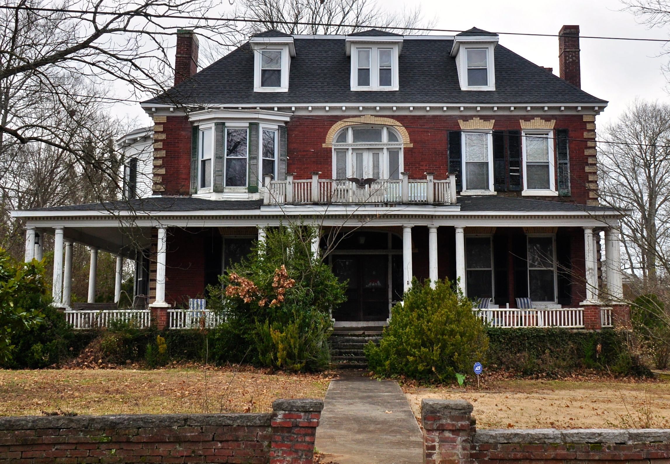 Located at Shelbyville, Bedford County, Tennessee. Added to NRHP on 27 November 1989.